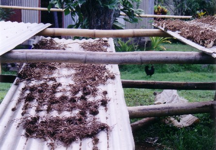 Kava drying in Lovoni village, Ovalau, Fiji, taken by myself, Helen Creighton, in October 2001.